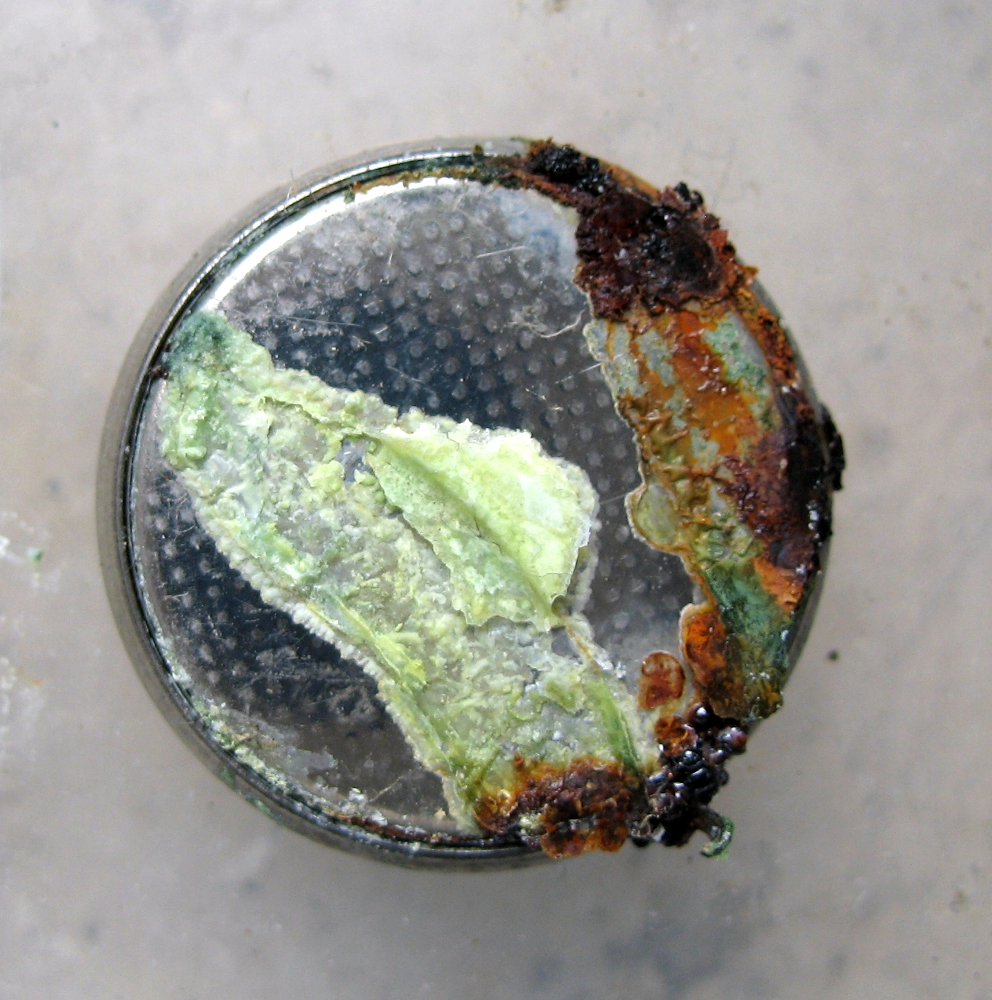 Leaked and corroded button cell, turned over